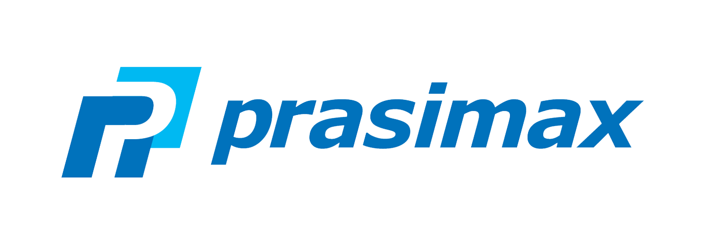 Logo of PRASIMAX with legal name: PT. Prasimax Inovasi Teknologi